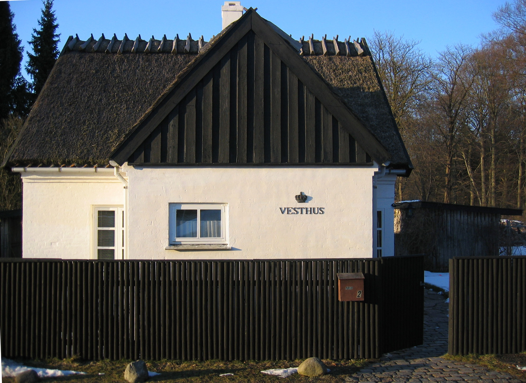 Vest(West) House, Jægersborg Deer park, Denmark